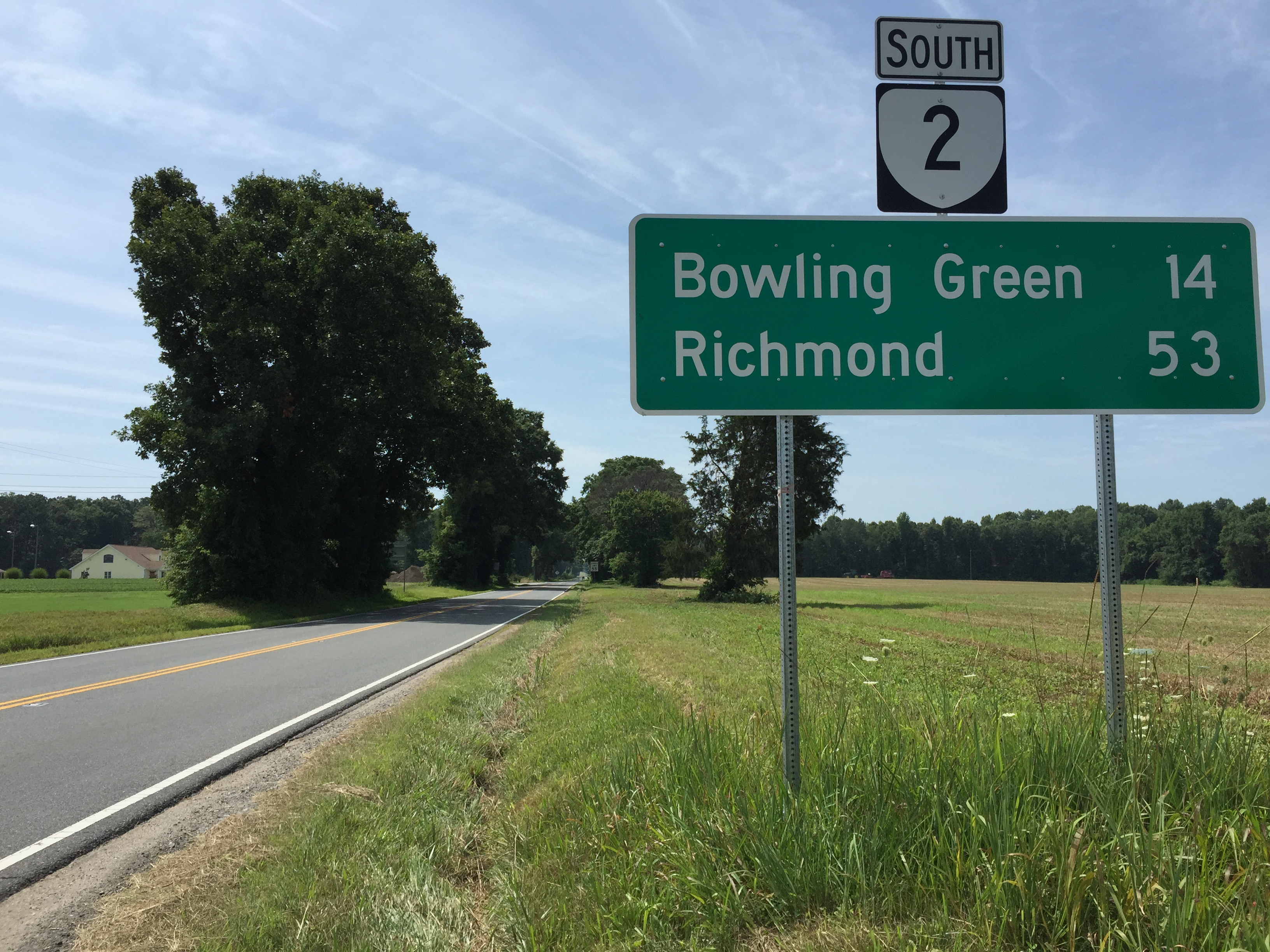 View south along Virginia State Route 2 (Sandy Lane Drive) just south of U.S. Route 17 (Tidewater Trail) in New Post, Spotsylvania County, Virginia